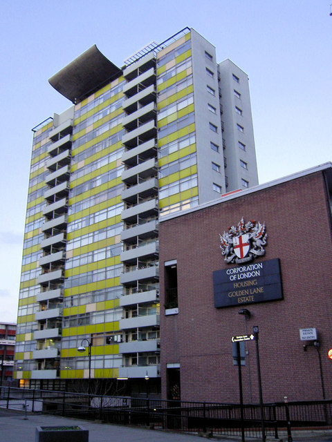 Gold Block Golden Lane estate from Fann Street.